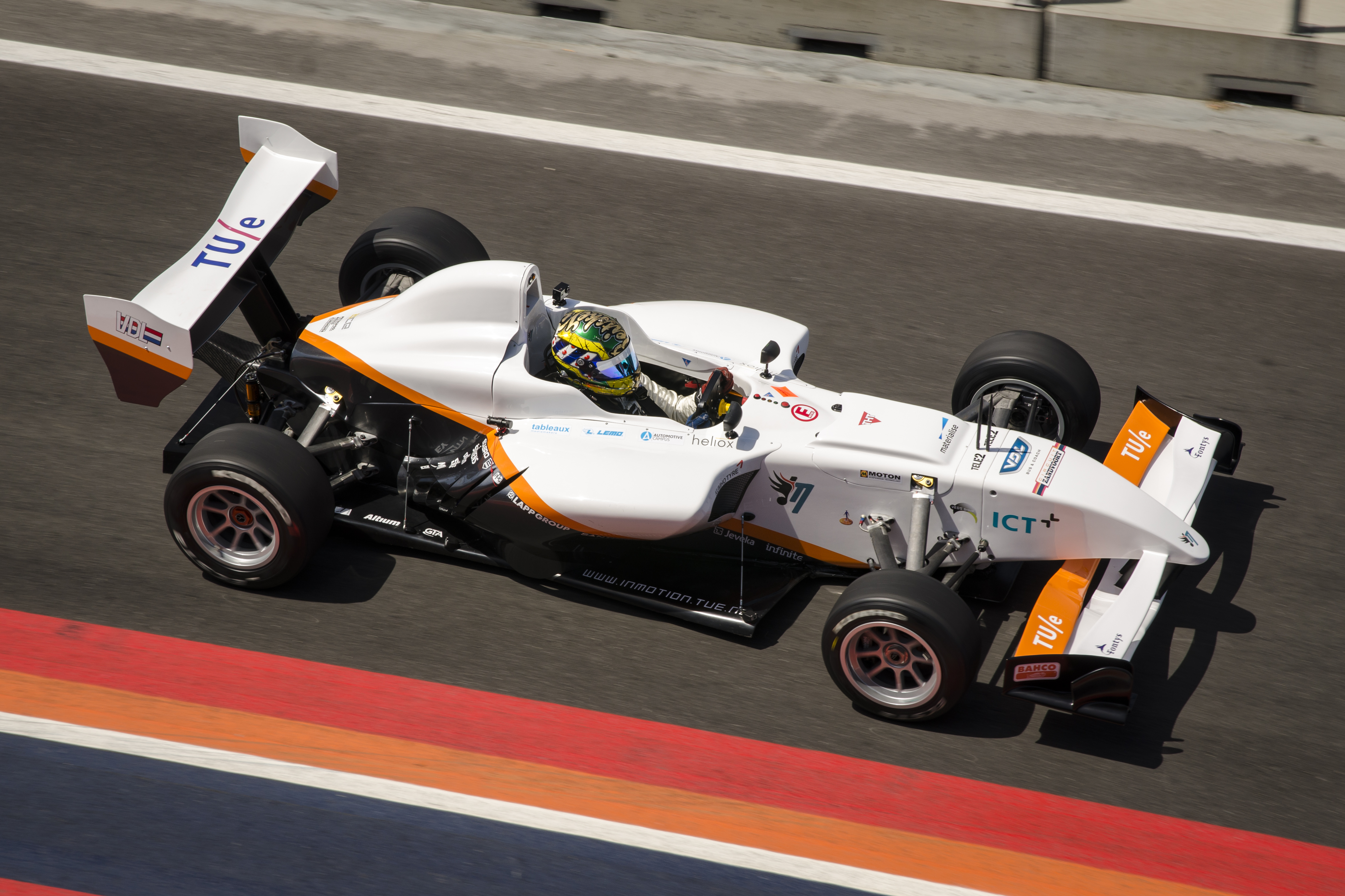 Beitske Visser driving the InMotion IM/e at the dutch Zandvoort track in 2017, claiming the dutch electric lap record